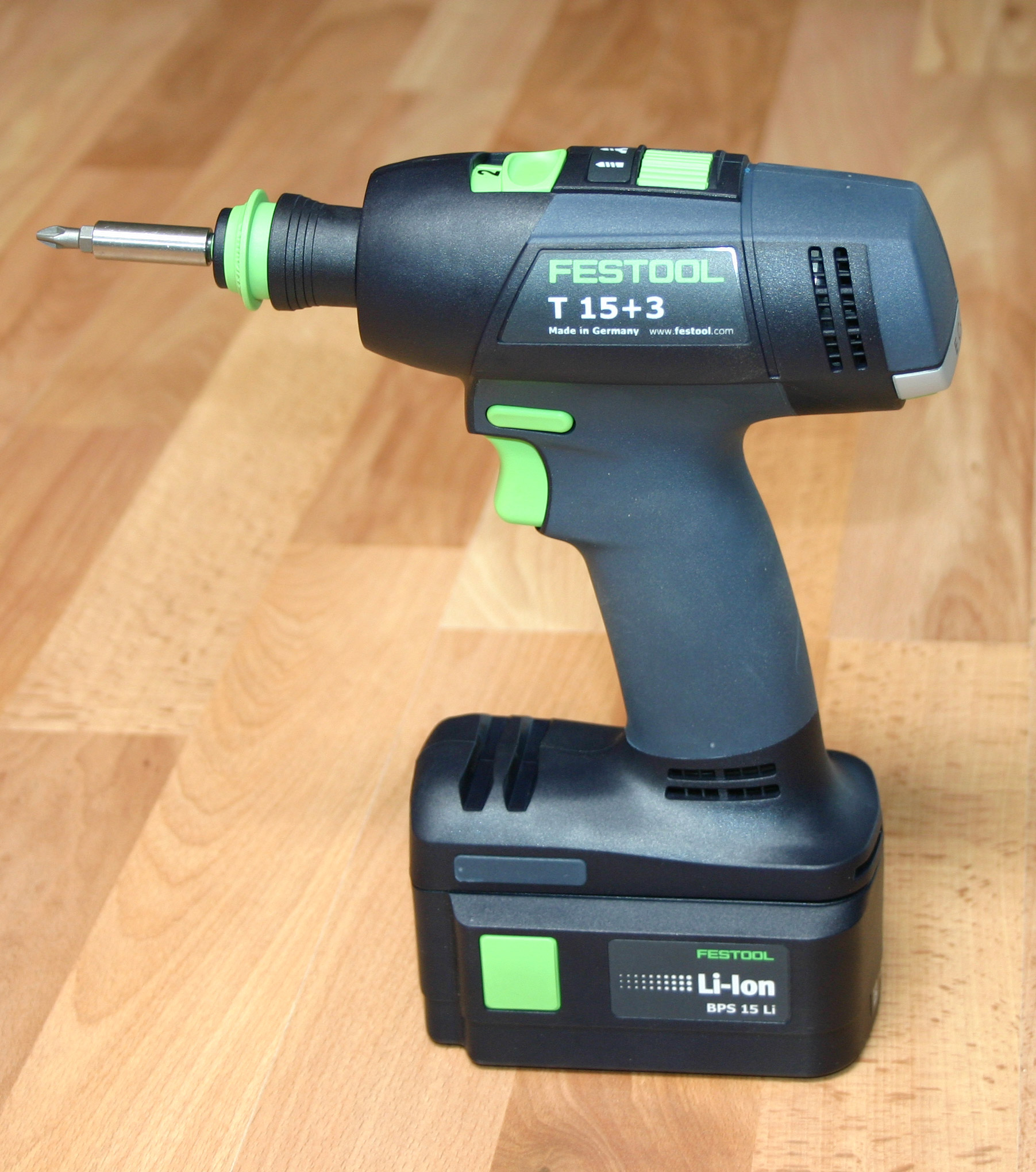 Festool T15+3 cordless drill